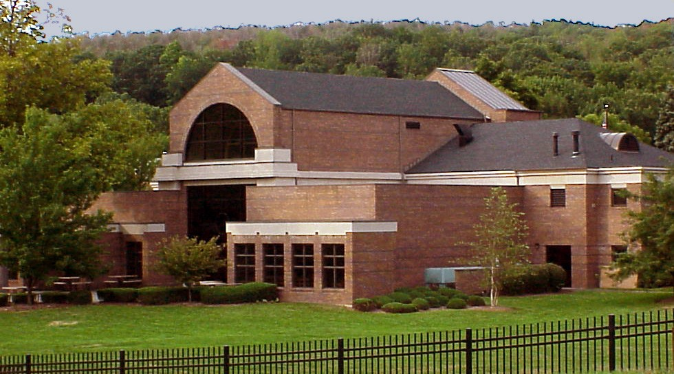 St. Thomas Aquinas Campus